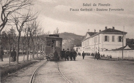 Pinerolo, tramway and railway station